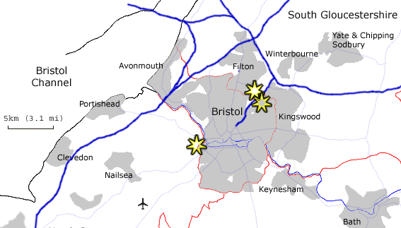 Map of Bristol, showing University of the West of England campuses.